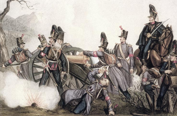 Artillery battery of the federal troops during the Sonderbund war at Gisikon. Section of a watercolor painting from Albert von Escher